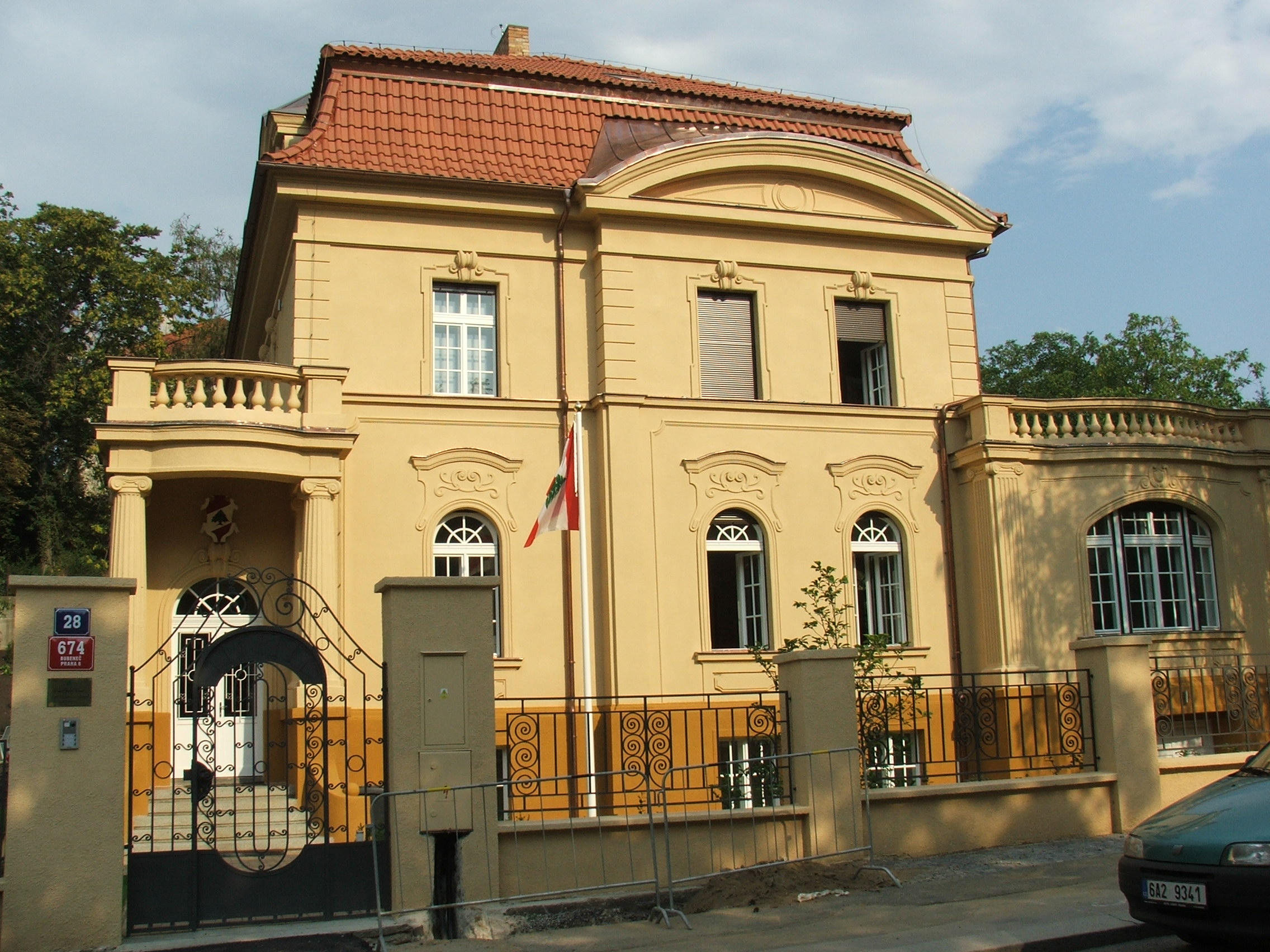 Former Residence of the Embassy of Lebanese Republic in Prague - Bubeneč, Czechia - 2007.